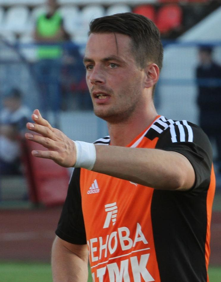 Sölvi Ottesen playing for FC Ural Sverdlovsk Oblast.